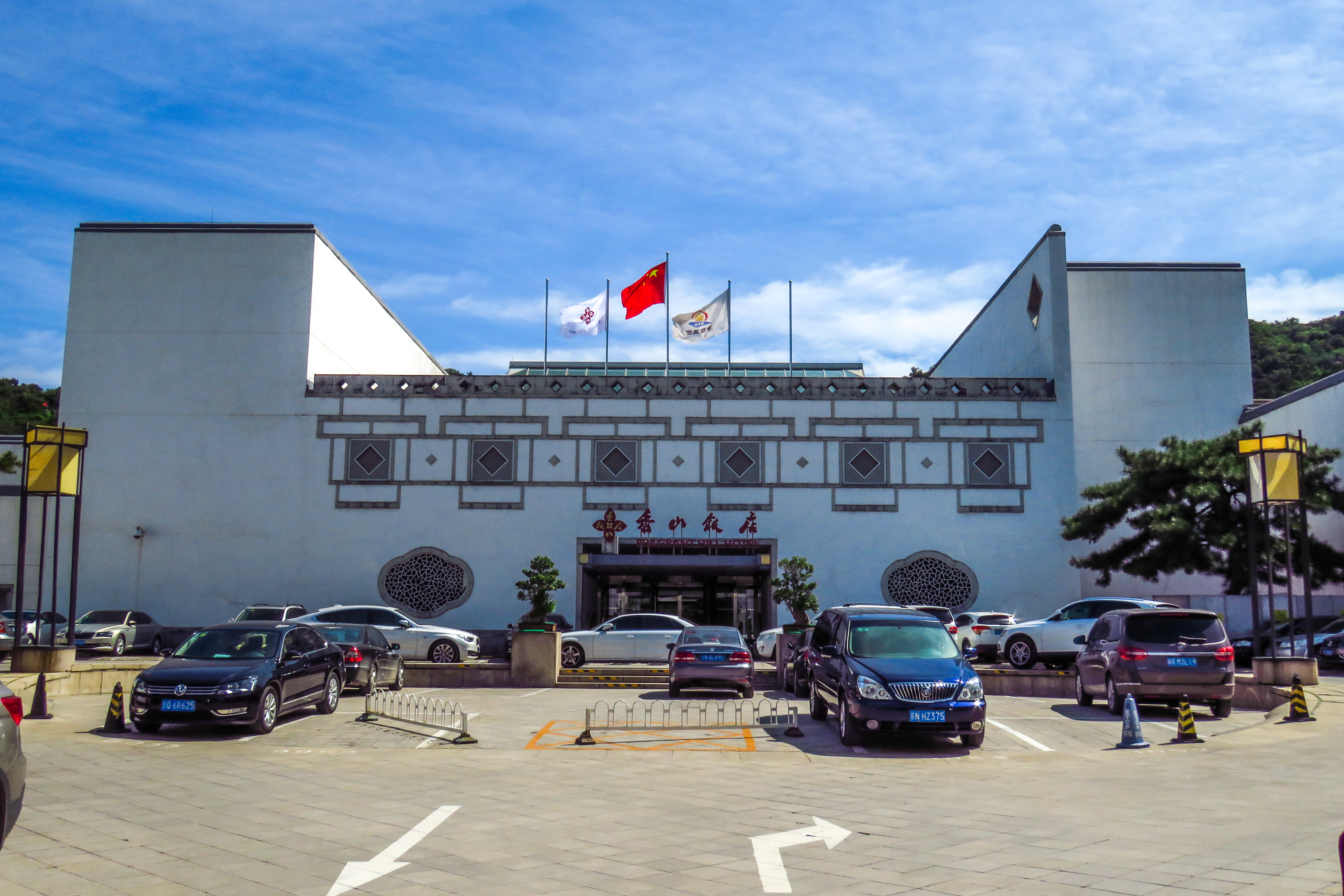 This work of I.M. Pei was completed in 1982.